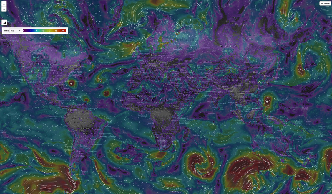 A visualization of Spire Global's internal Weather Forecast Model